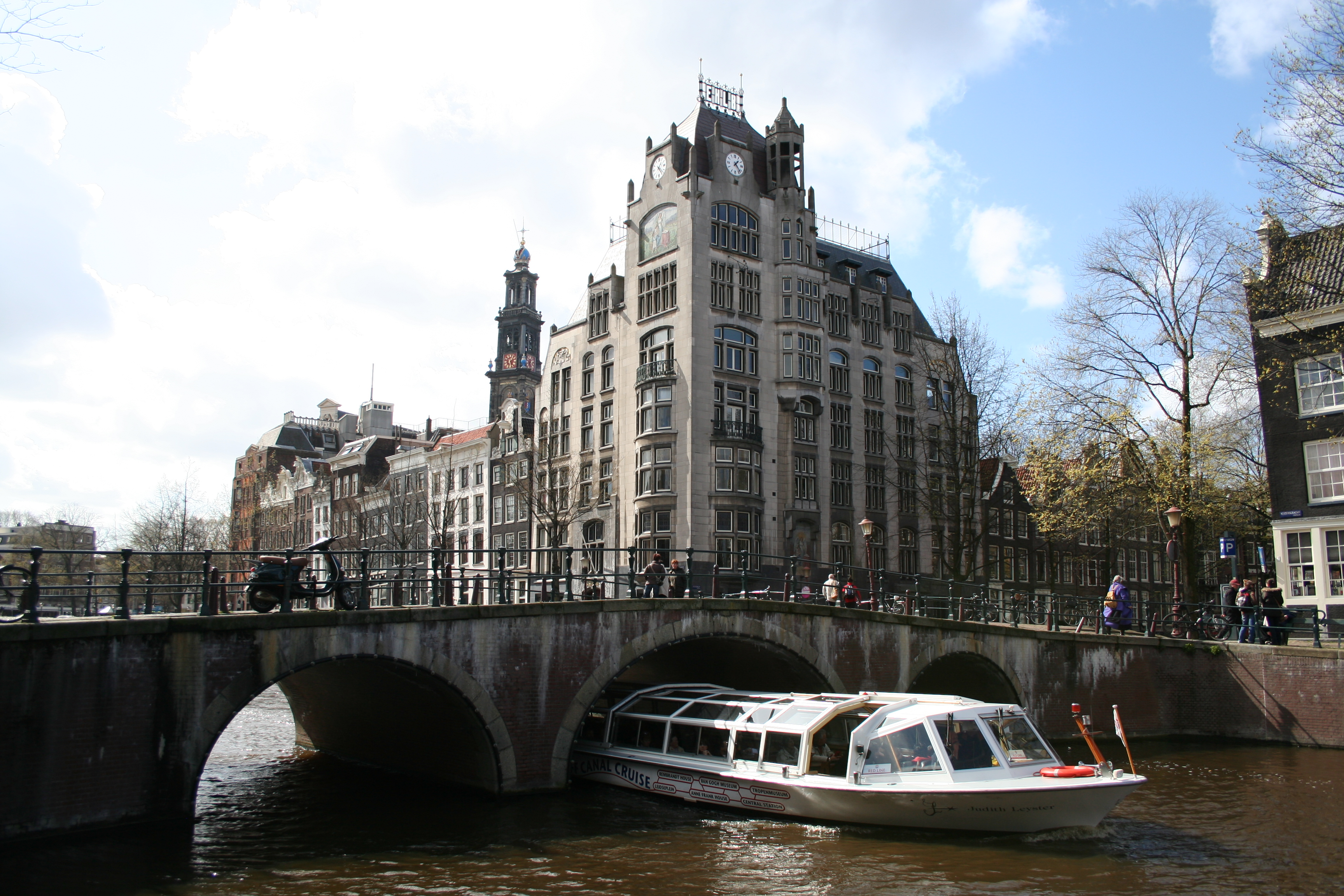 A photograph taken of the Keizersgracht at the corner with the Leliegracht in Amsterdam. The Westertoren (tower of the 'Western Church') in the background